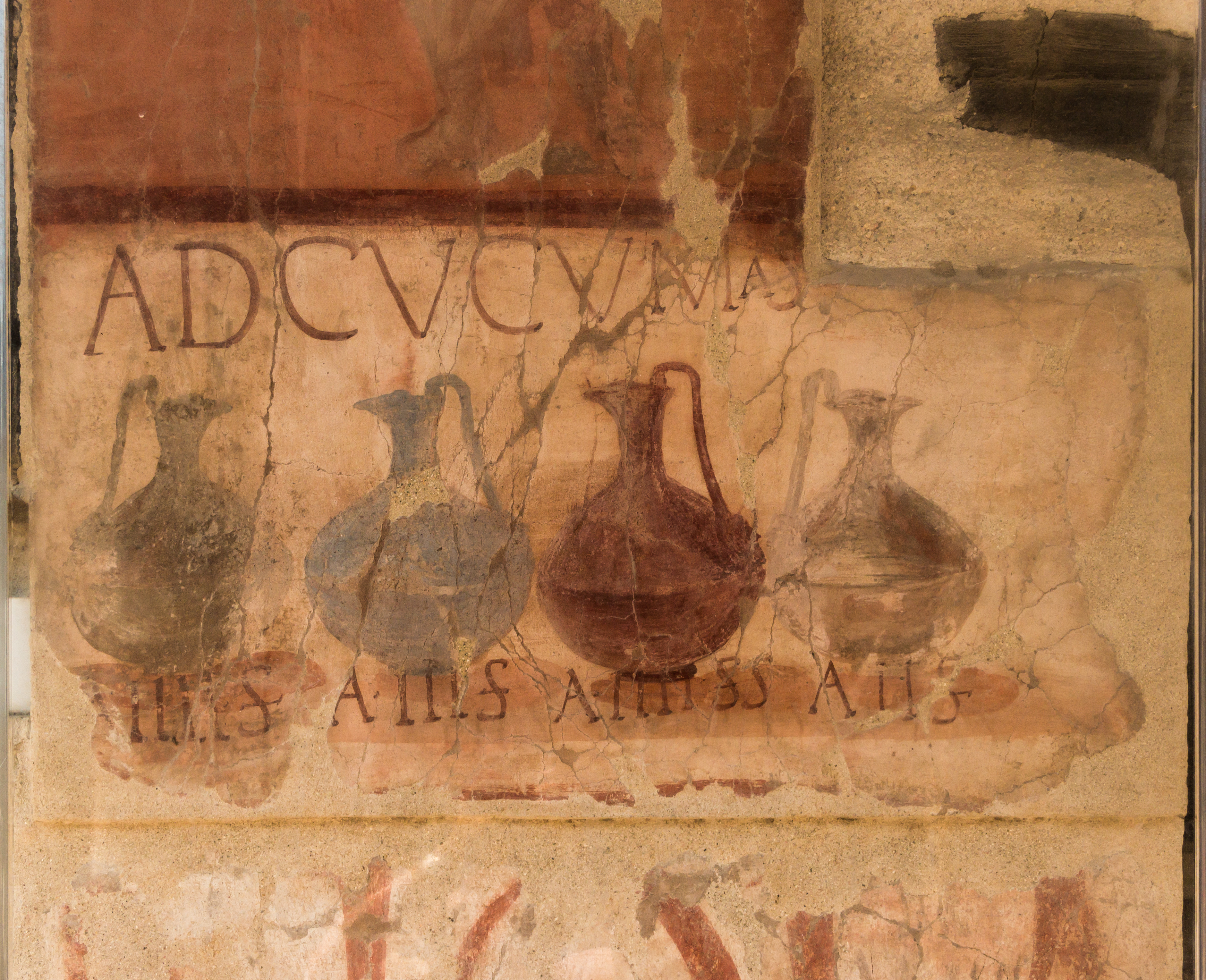 Wine selling advertisement and prices, "Ad Cucumas" shop, ancient roman painting in Herculaneum, Italy.